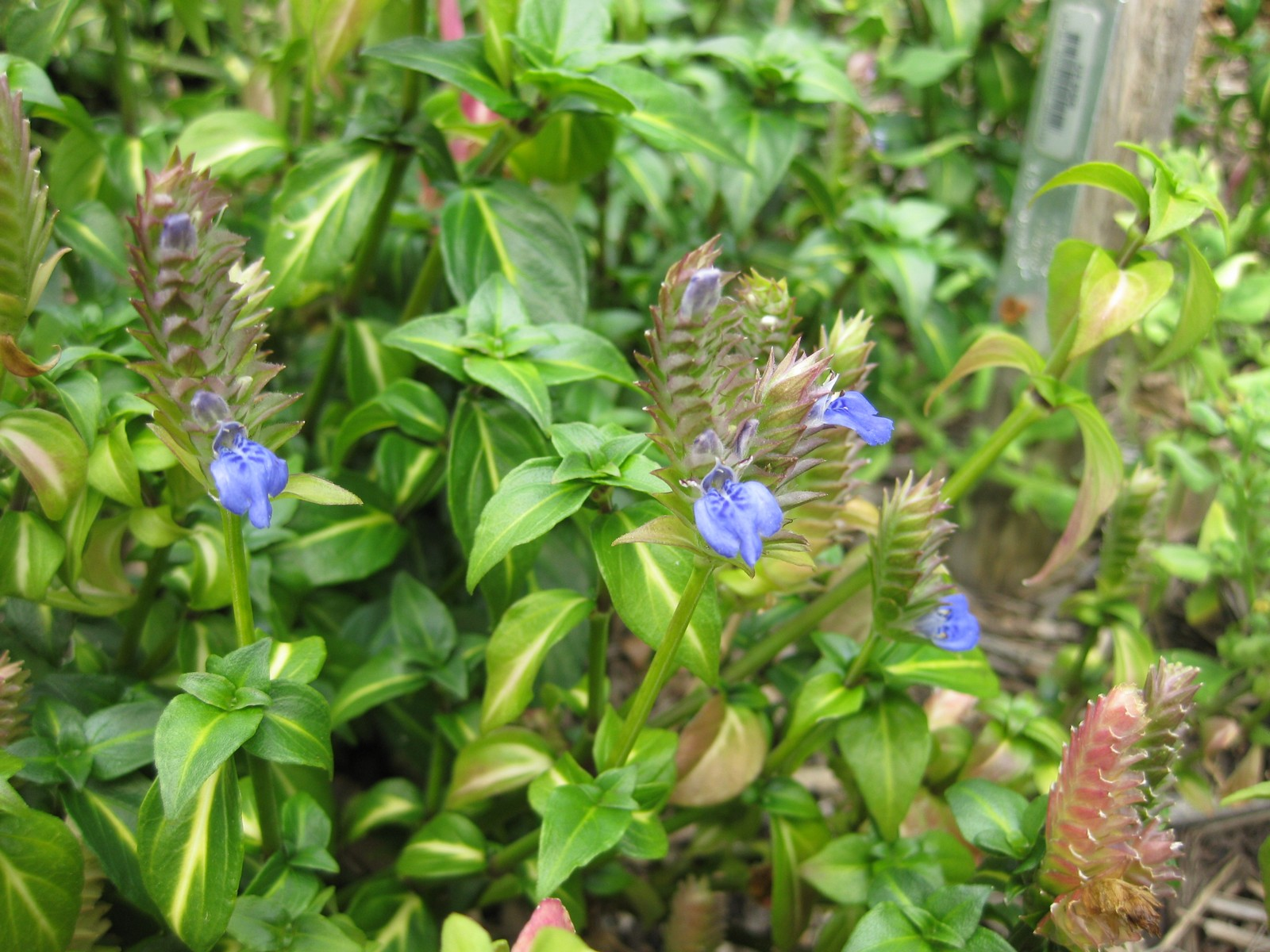 Photographed at the Royal Botanic Gardens Sydney (Australia) in January